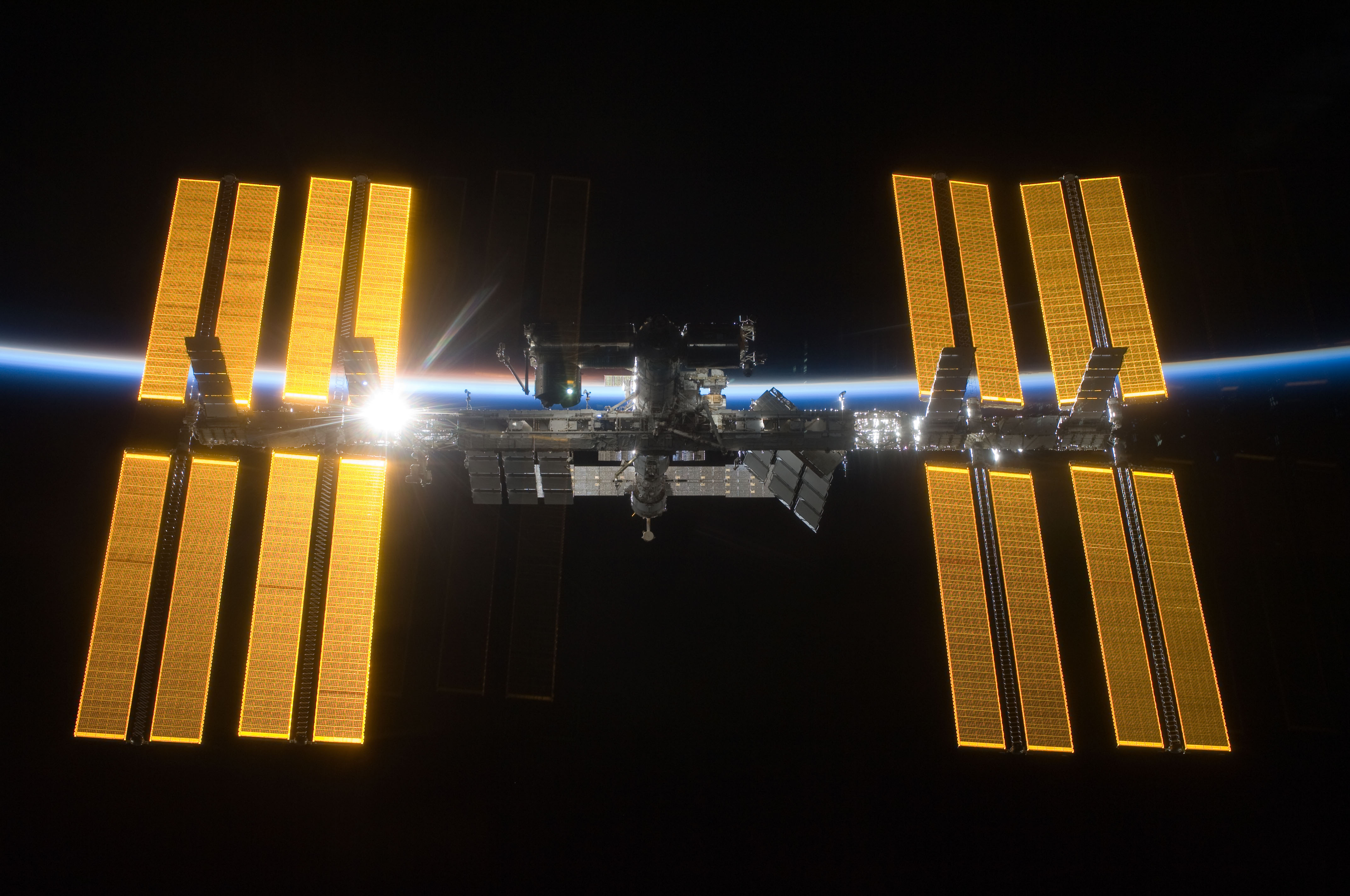 Backdropped by the blackness of space and the thin line of Earth's atmosphere, the International Space Station is seen from Space Shuttle Discovery as the two spacecraft begin their relative separation. Earlier the STS-119 and Expedition 18 crews concluded 9 days, 20 hours and 10 minutes of cooperative work onboard the shuttle and station. Undocking of the two spacecraft occurred at 2:53 p.m. (CDT) on March 25, 2009.